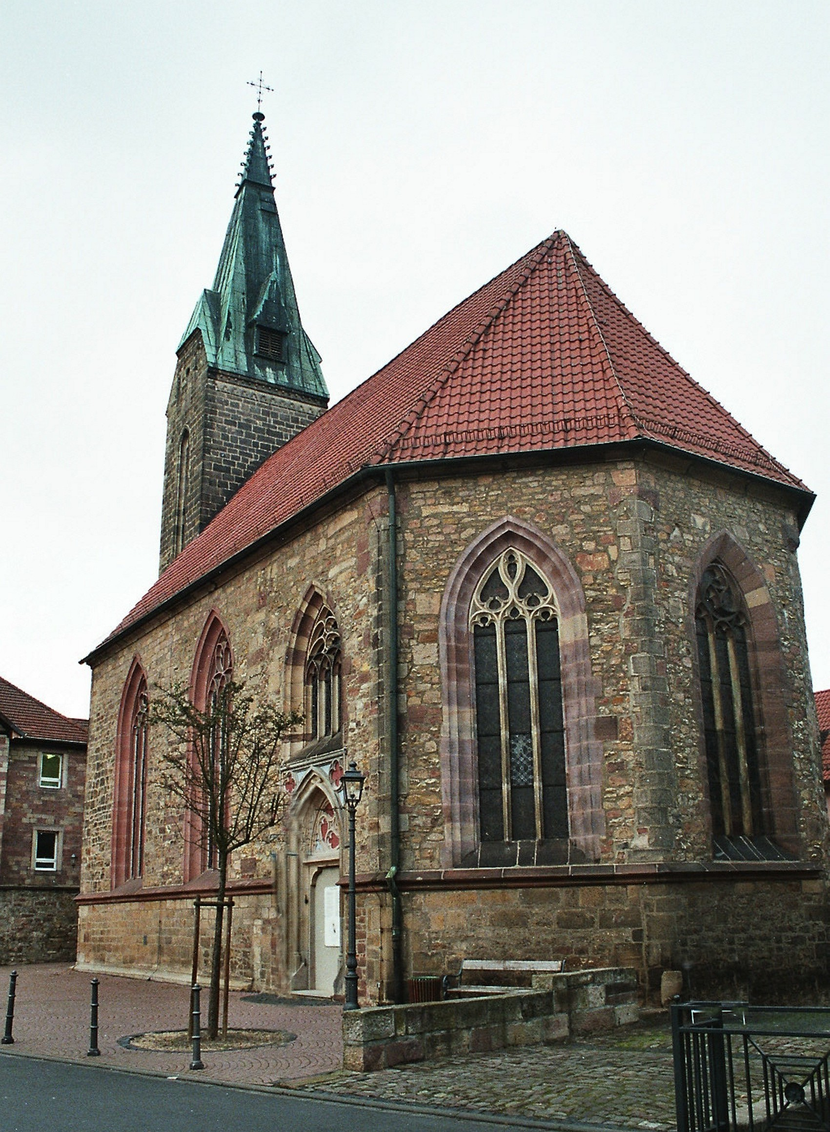 Hünfeld the church of the Holy Cross